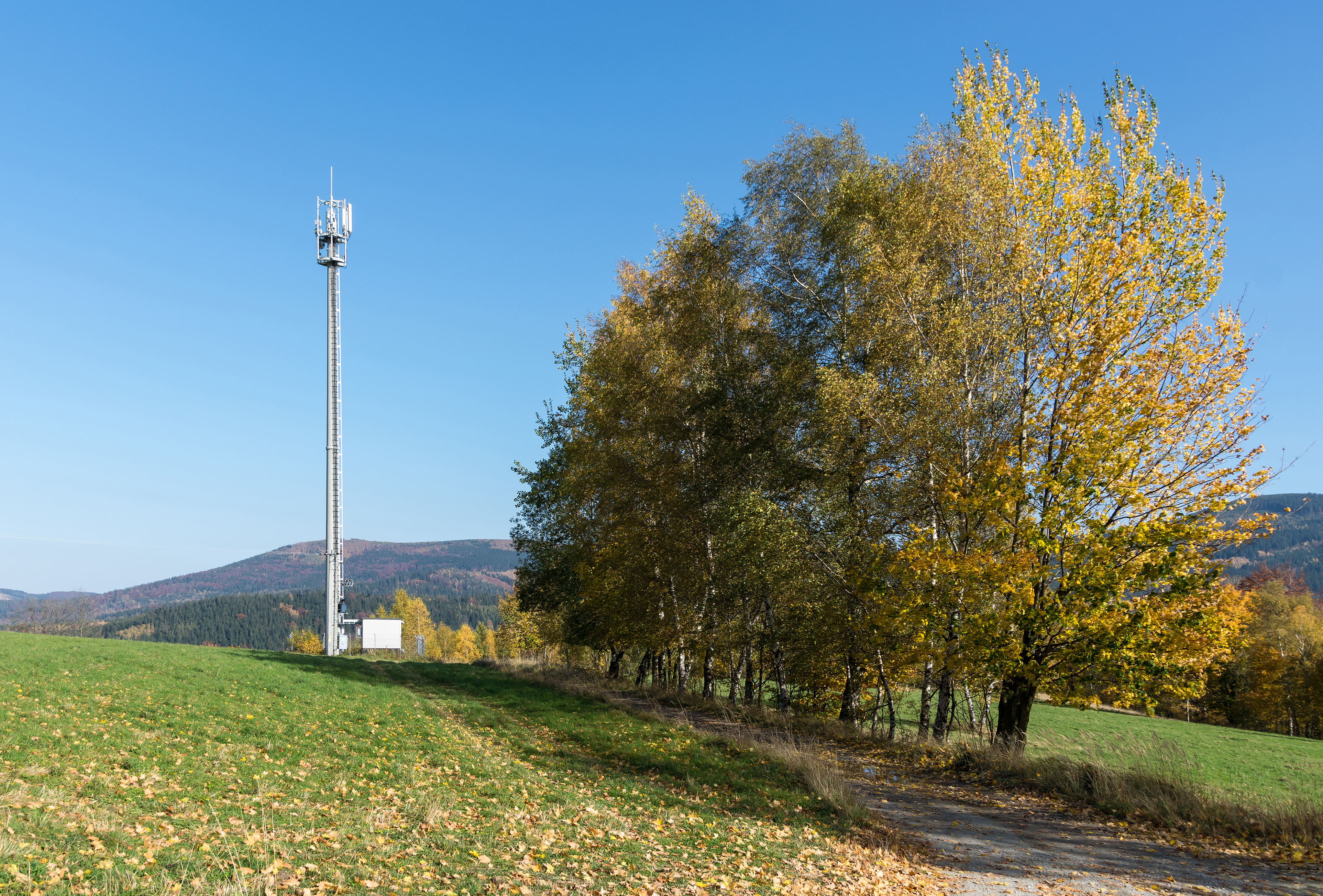 BTS in Stara Morawa